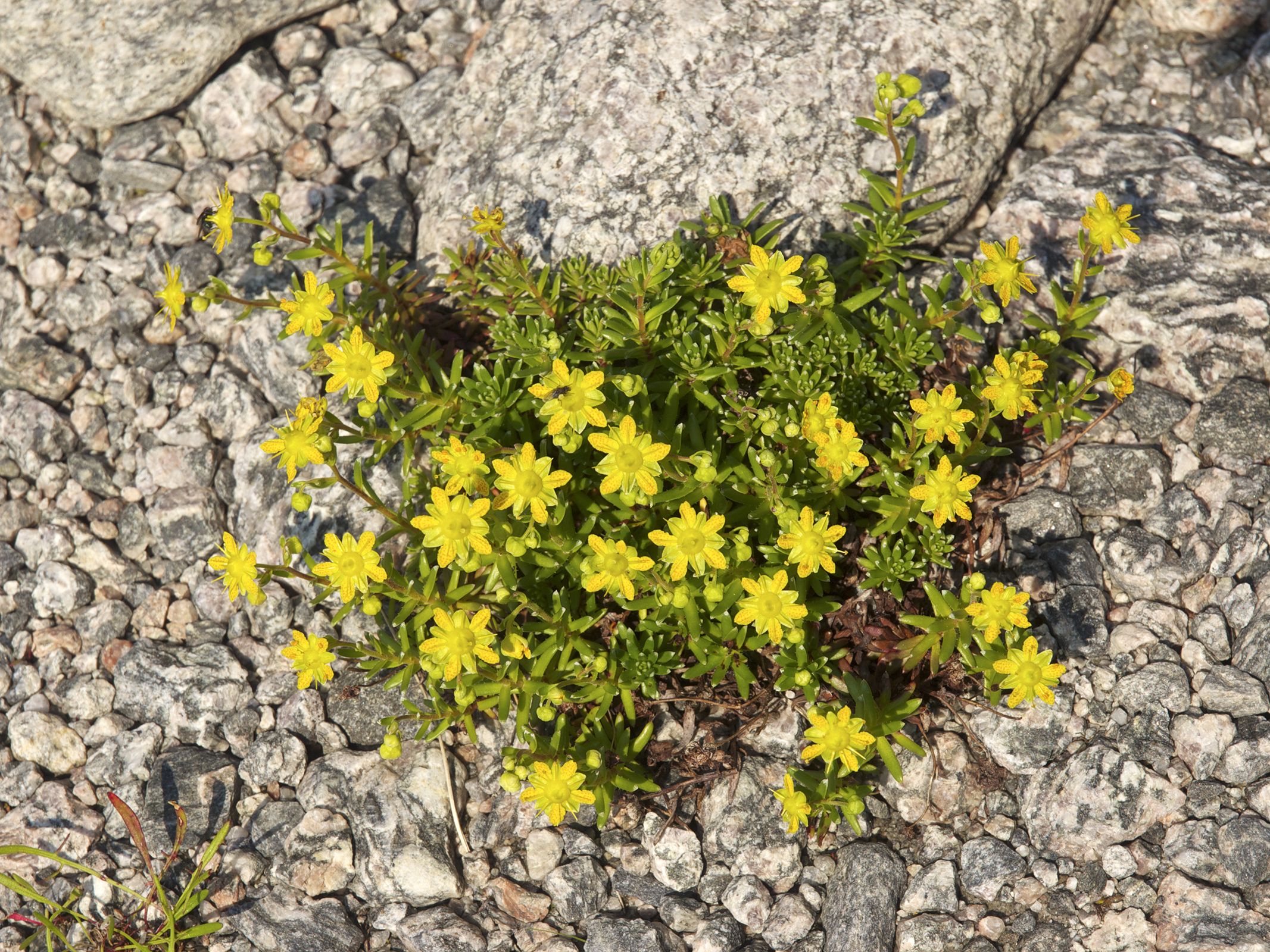 Yellow Mountain Saxifrage (Saxifraga aizoides), Briksdalen, Norway